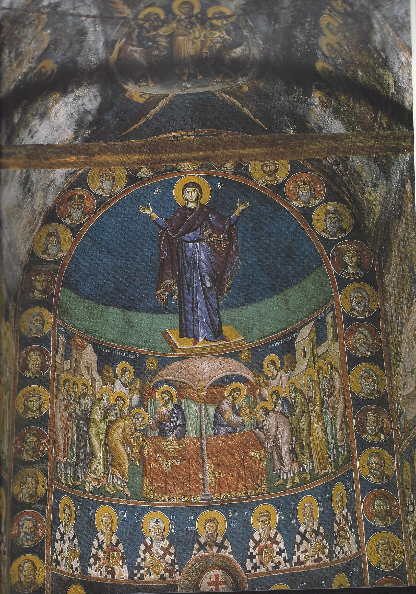 Frescopainting of the church Holly Mother of God Perivleptos (1295) in Ohrid, Macedonia